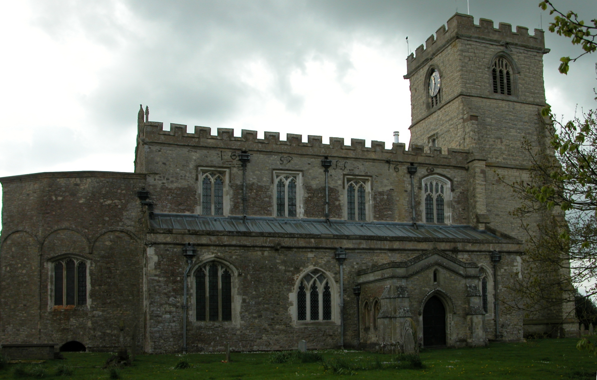 All Saints Church Wing, Buckinghamshire, England - Anglo Saxon Church